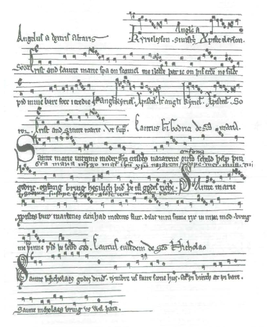 Four songs of St Godric